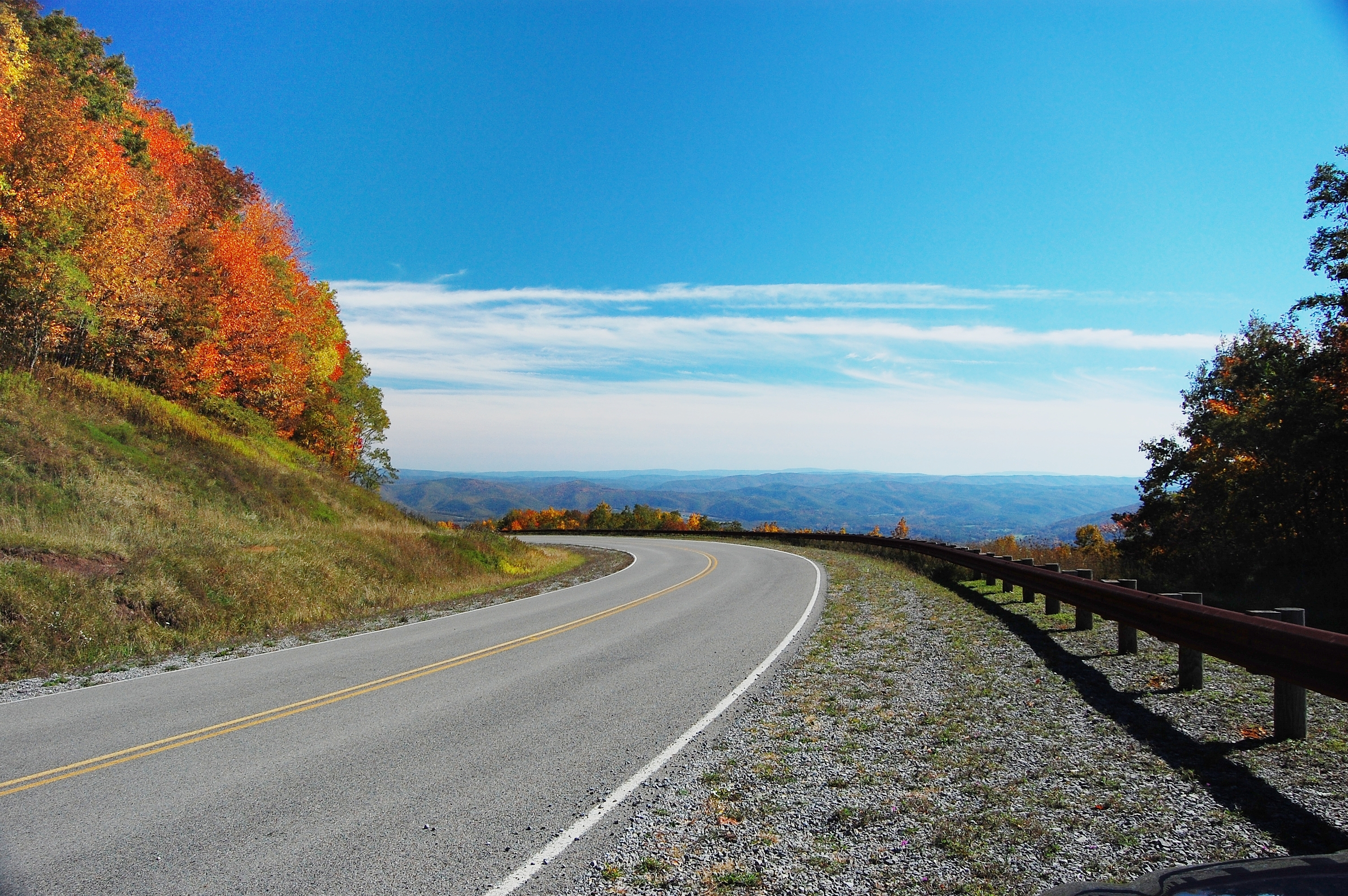 A stop along the Highland Scenic Highway. This photo is of the parkway section between SR 39 and US 219